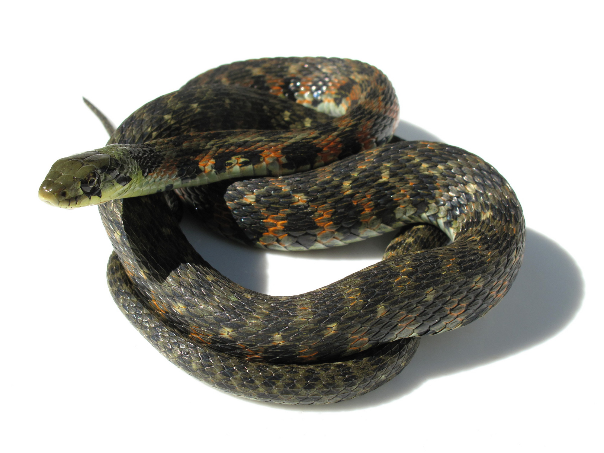 Tiger keelback, Rhabdophis tigrinus